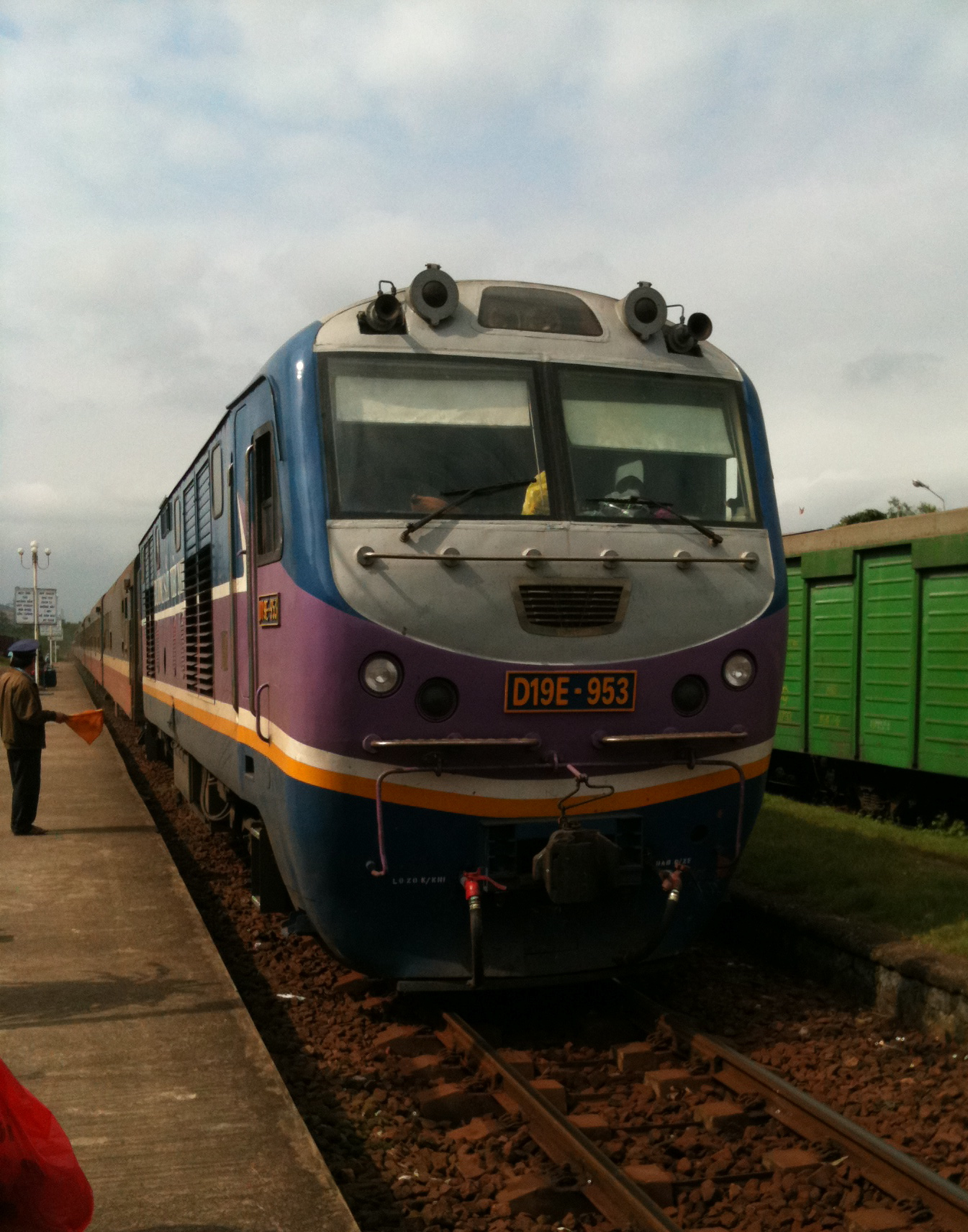 Vietnam Railways locomotive D19E-953 at Dieu Tri Railway Station, Dieu Tri, Binh Dinh Province.